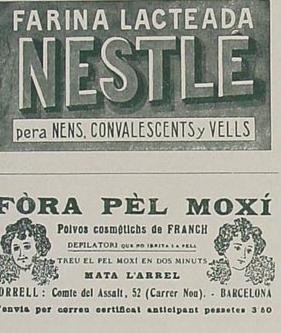 Advertising of an old magazine of the XX century (before 1923)